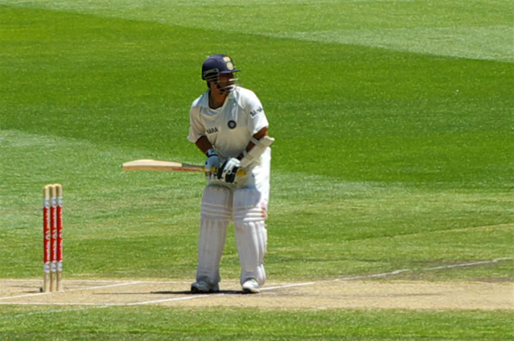 Sachin smiling (India tour of Australia, 1st Test: Australia v India at Melbourne, Dec 26-29, 2007)